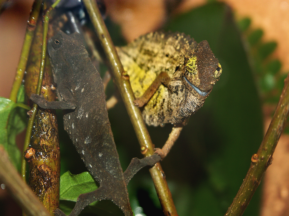 displaying Rieppeleon brevicaudatus